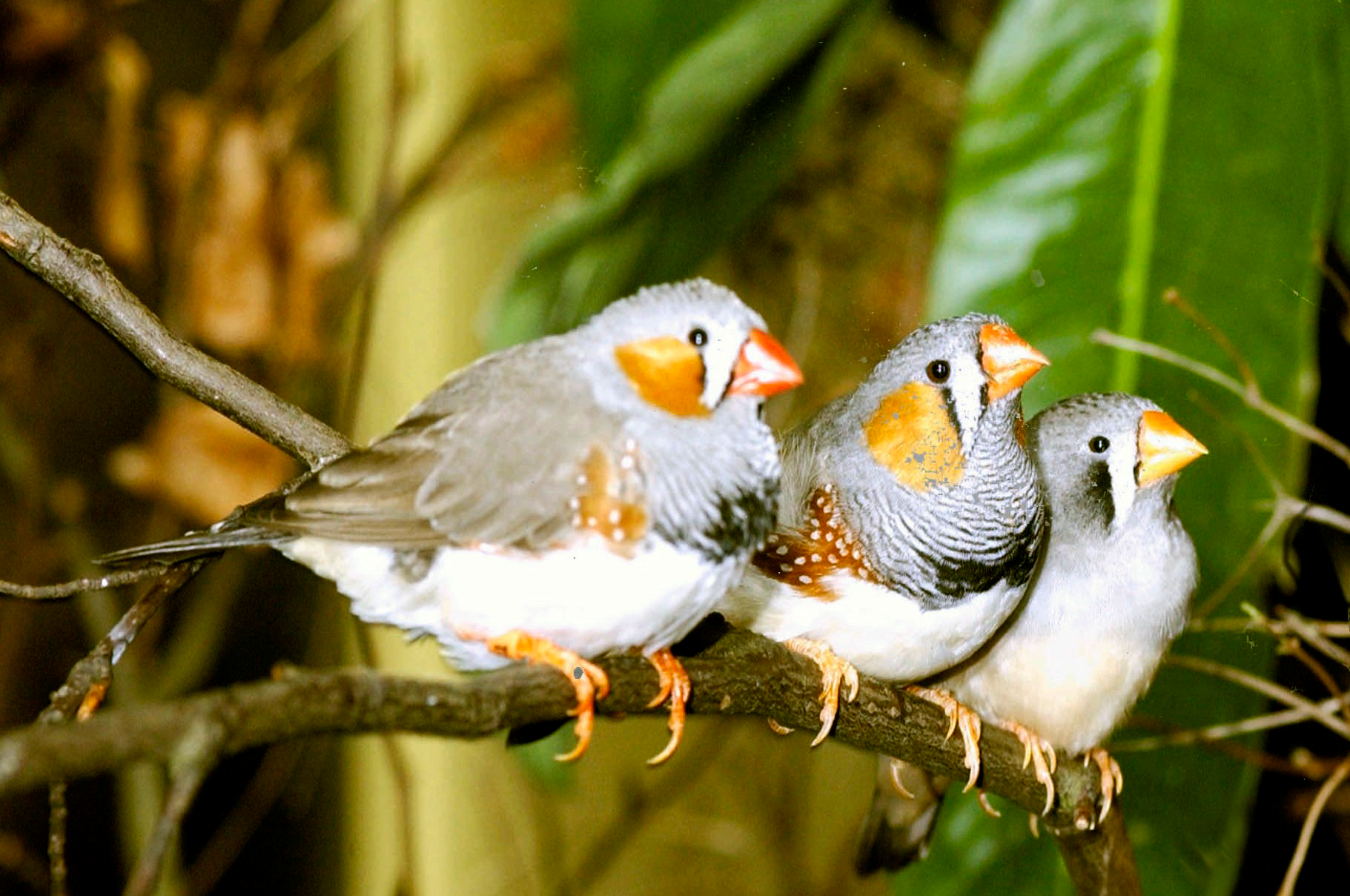 Adult zebra finches who grew fastest as chicks after a nutrition-poor diet had trouble learning an association task.